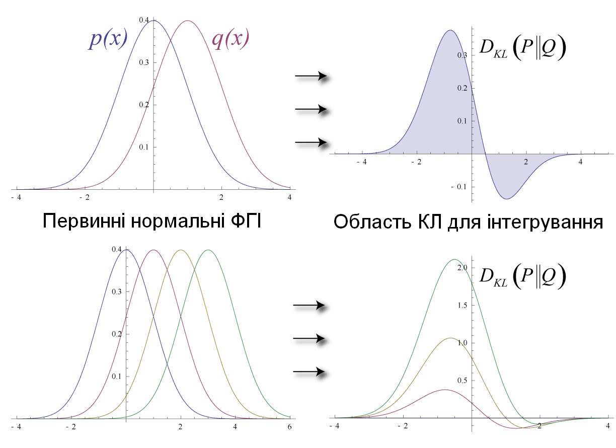 The Kullback-Leibler divergence for a normal Gaussian probability distribution. This is an illustration of the area which is integrated when computing the KL divergence. On the top left is an example of two Gaussian PDF’s and to the right of that is the area which when integrated gives the KL metric. Below it are three more examples showing that as the mean between two distributions grows linearly, the area integrated grows much faster. Labelled in Ukrainian.